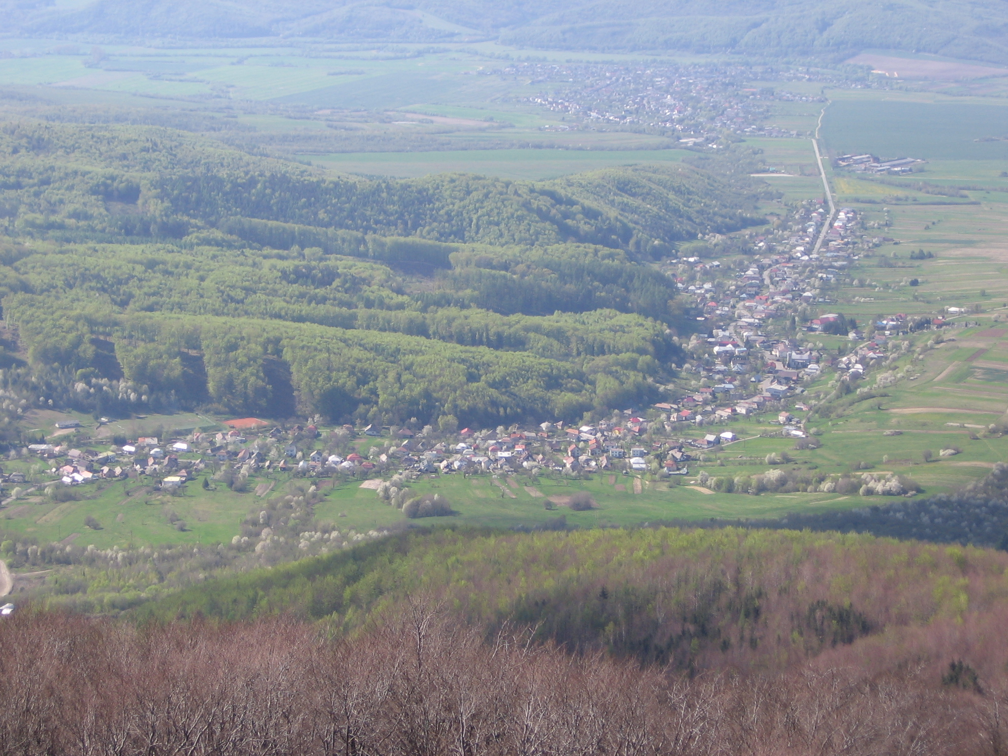 Slovakia, Vihorlat mountain, Sninsky kamen peak - Zemplinske Hamre village seen from the top.